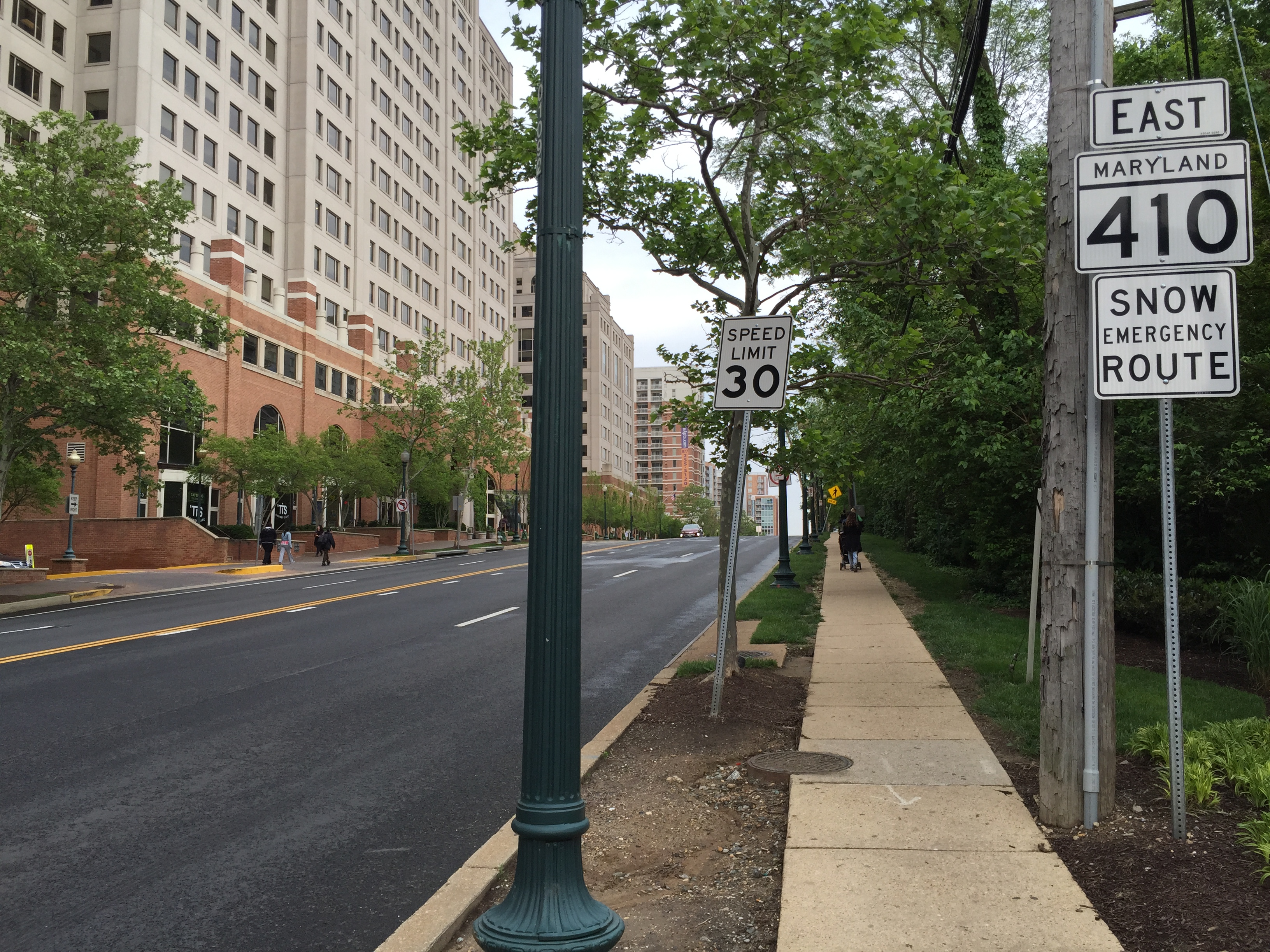 View east along Maryland State Route 410 (East-West Highway) just east of Maryland State Route 384 (Colesville Road) in Silver Spring, Montgomery County, Maryland